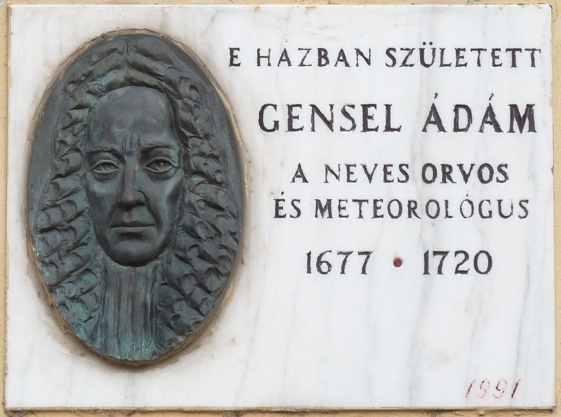 Commemorative plaque to Mr. János Ádám Gensel (1677-1720) Hungarian polymath, chief medical officer and meteorologist. It is affixed to the wall of the house where he was born. The author of the bronze relief is Mr. László György Kiss (1991). (Sopron, Fő Square Nr 2)